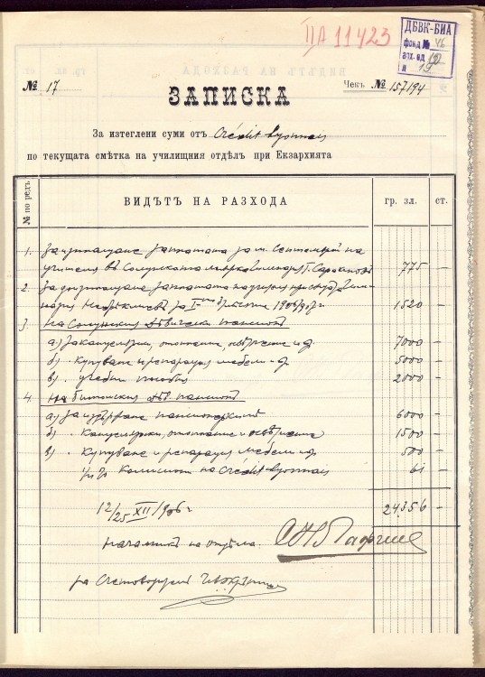 Bulgarian Girls' High School of Thessaloniki Financial Document, 25 December 1906